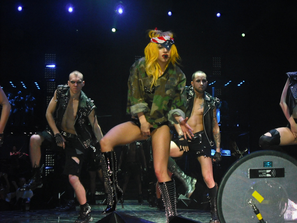 Lady Gaga and her dancers performing "Telephone" on The Monster Ball Tour, in Louisville.